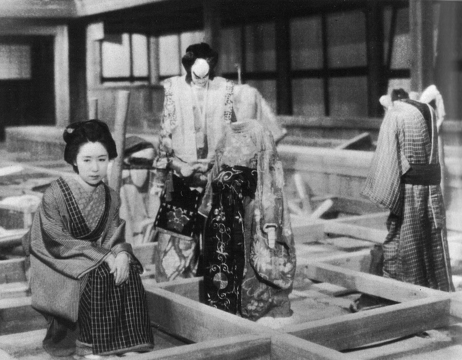 Kinuyo Tanaka in Naniwa onna (浪花女) directed by Kenji Mizoguchi - 1940